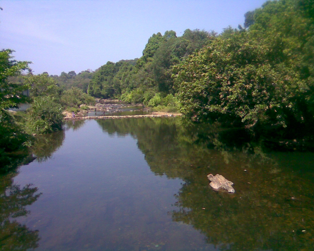 Chenkanni puza, aaralam